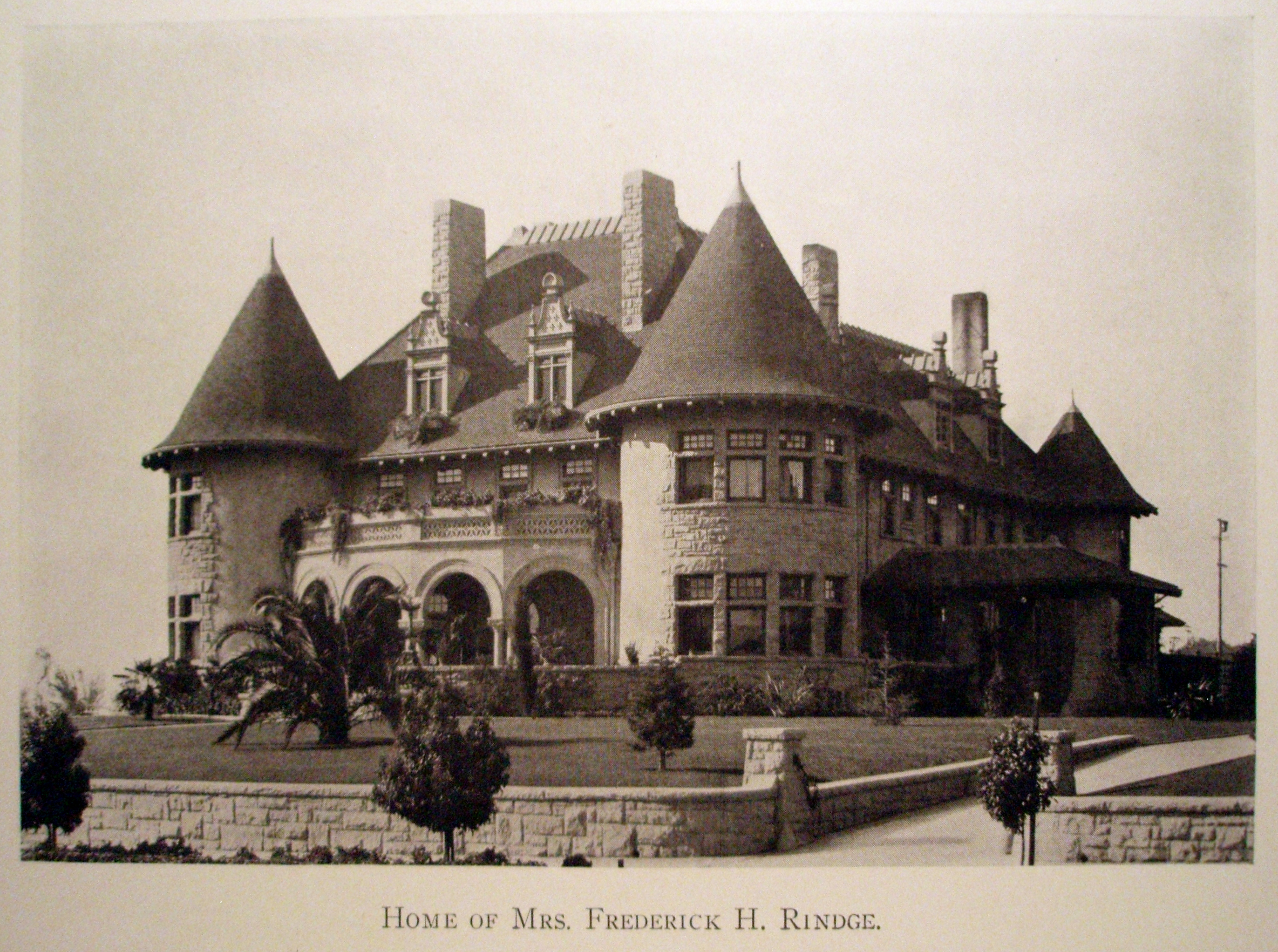 Page 41 of the book, showing the residence of Mrs. Frederick Rindge. This edition is 340 pages.